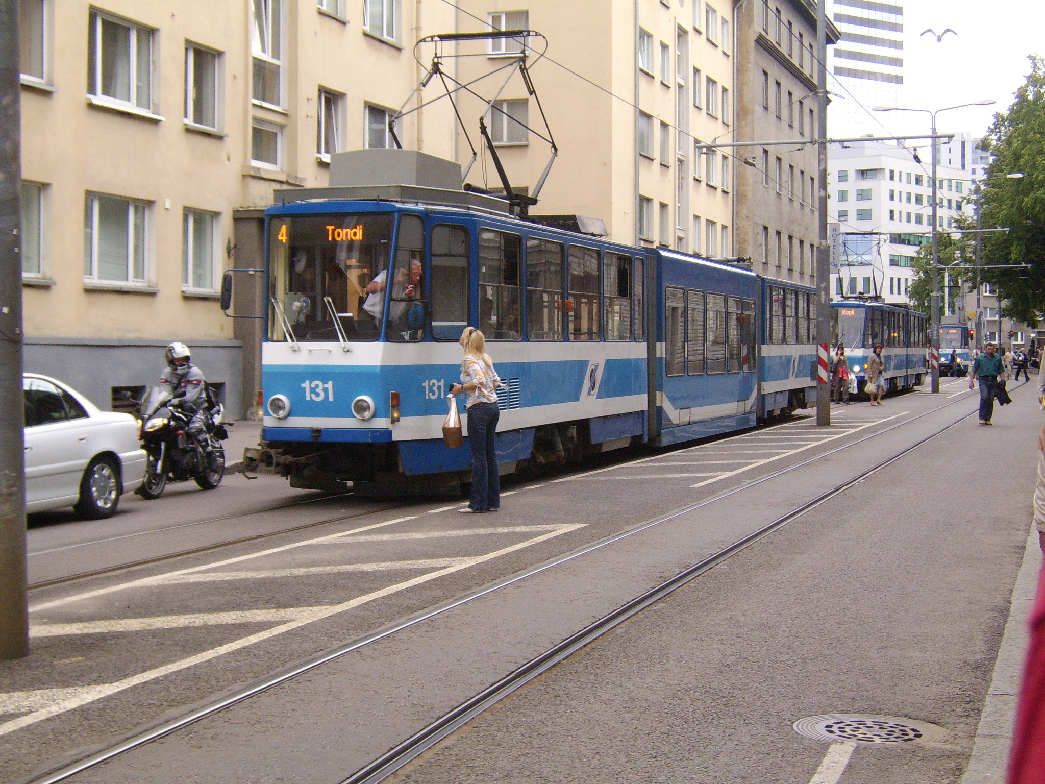 Tatra KT6T tram with a lowered middle-section. Tallinn, Estonia.